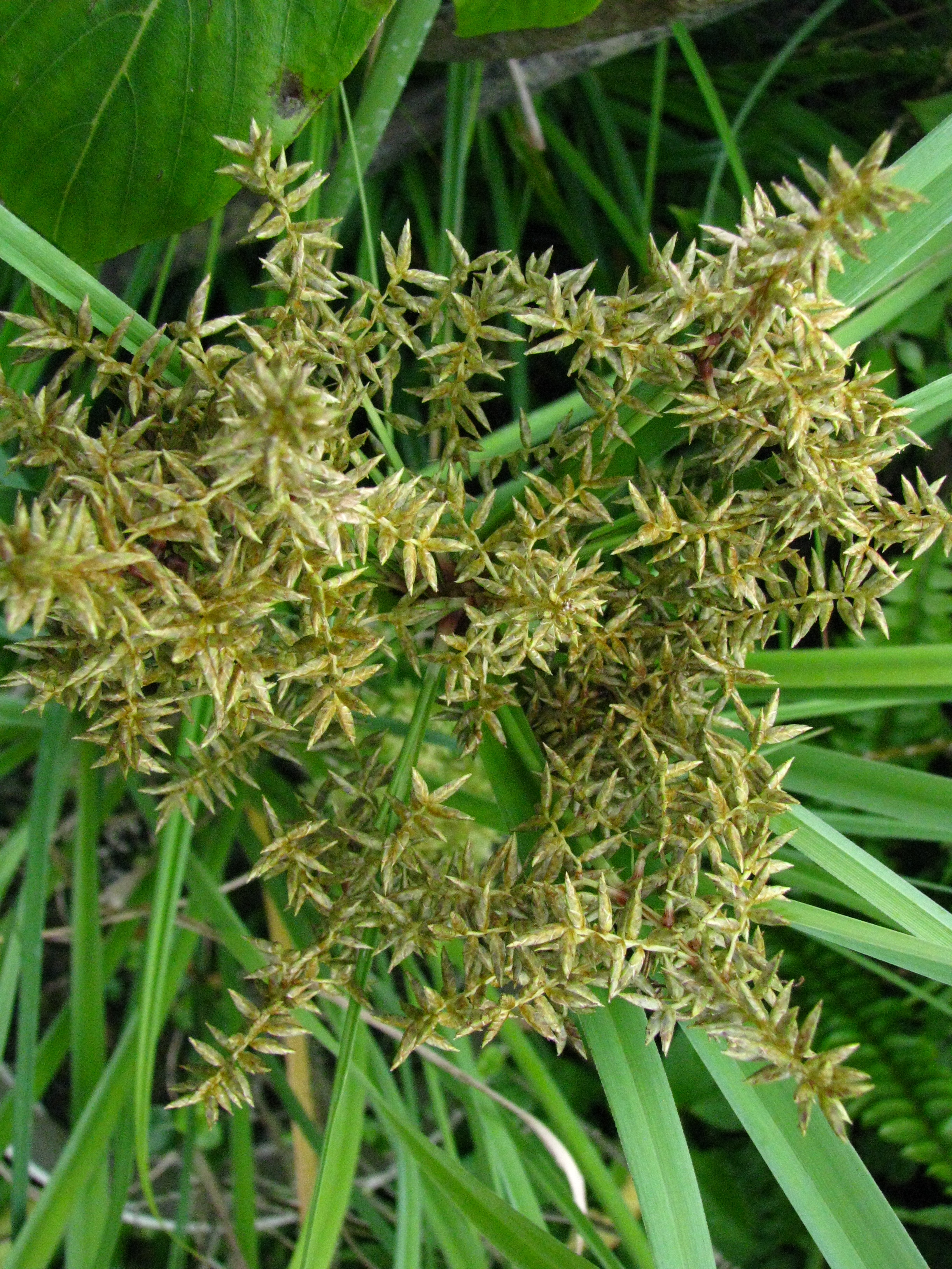 ʻAhuʻawa, ʻEhuʻawa, or Java sedge, Javanese flatsedge, Marsh cyperus Cyperaceae Indigenous to the Hawaiian Islands Oʻahu (Cultivated)